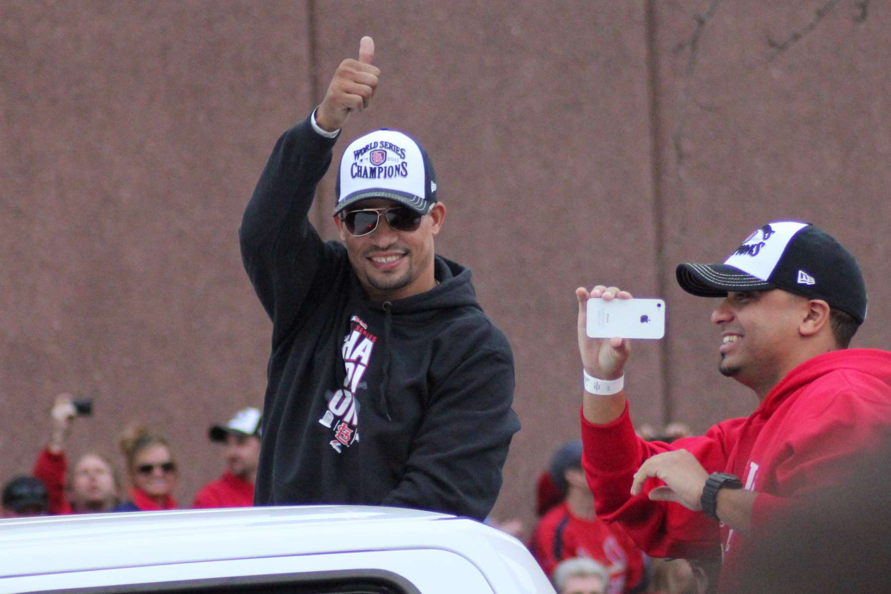 Rafael Furcal during the 2011 World Series victory parade Saint Louis Oct 30, 2011.